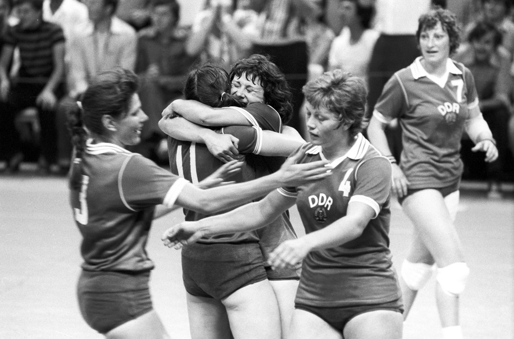 “German Democratic Republic's handball team”. The 22nd Olympic Games. Handball, women's teams. German handball players celebrating their success.